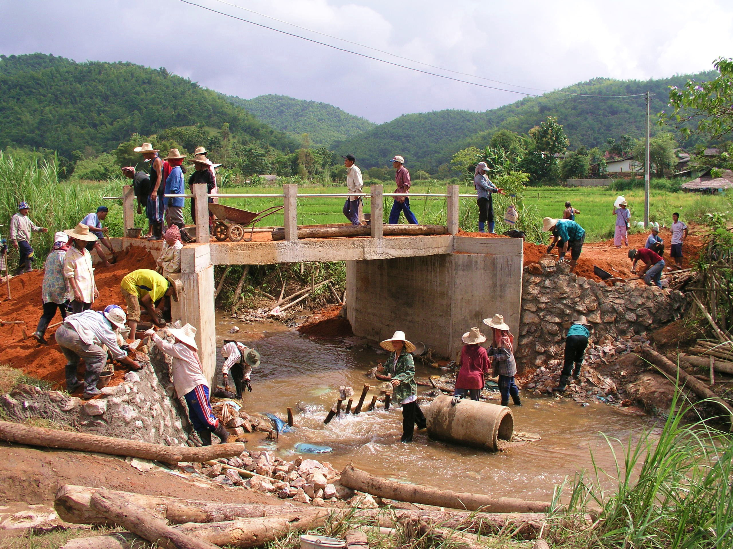 This photo was taken in Chiang Rai, Northern Thailand. During the construction project of a reinforced concrete bridge.